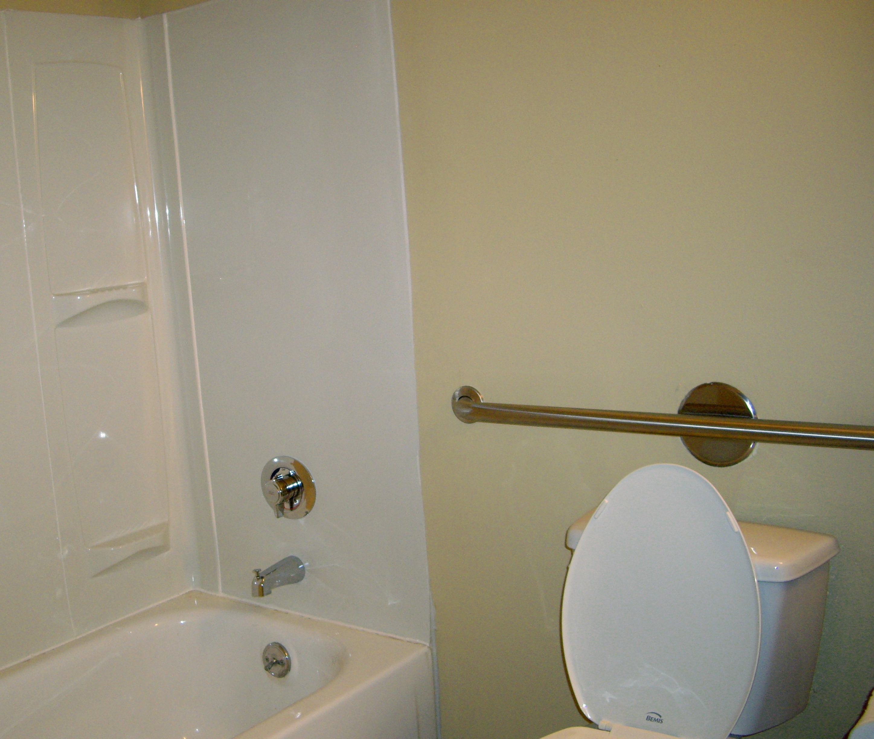 Photograph of a bathroom with toilet, shower, and grab bar